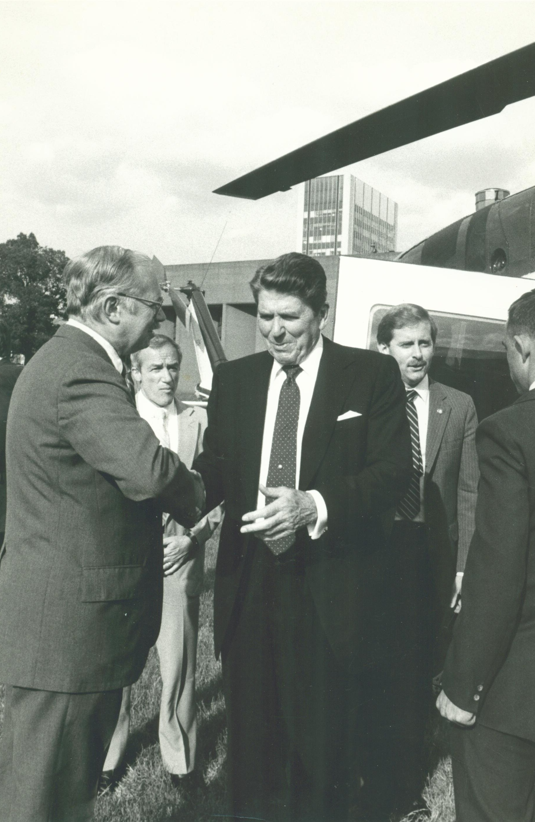 United States President Ronald Reagan on Stevens Institute of Technology Campus in Hoboken, New Jersey with Institute President and appointee to the Nuclear Regulatory Committee Kenneth C. Rogers